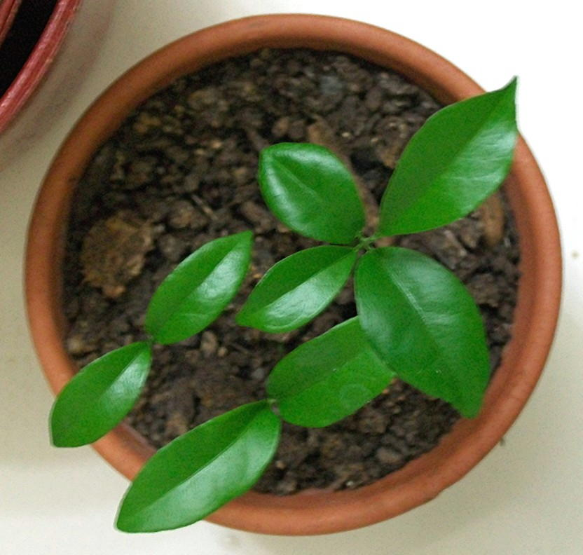 Young seedling nagami kumquats, Chapel Hill, North Carolina. Fortunella margarita|, syn: Citrus japonica 'Margarita, the Oval or Nagami Kumquat.